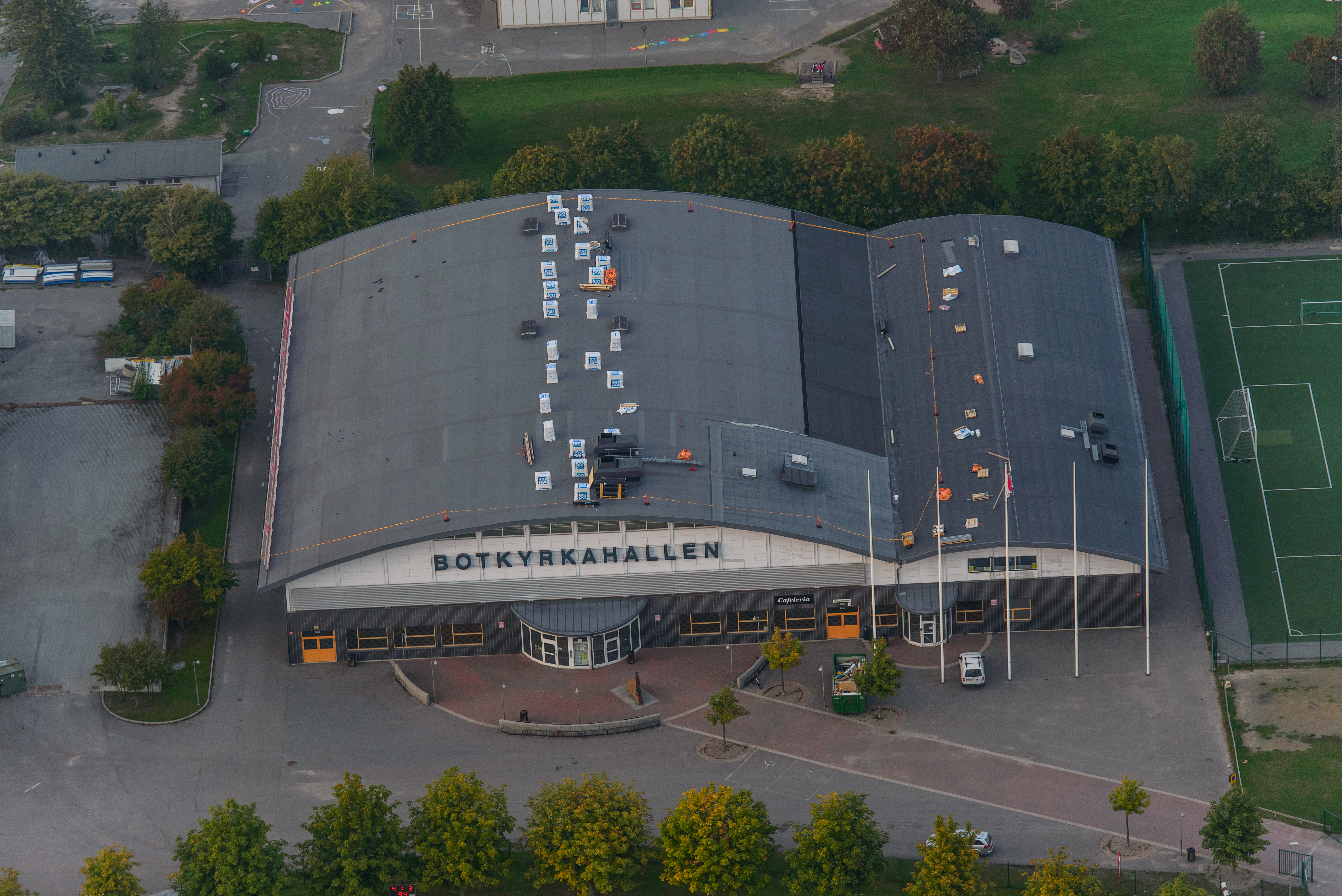 Botkyrkahallen.